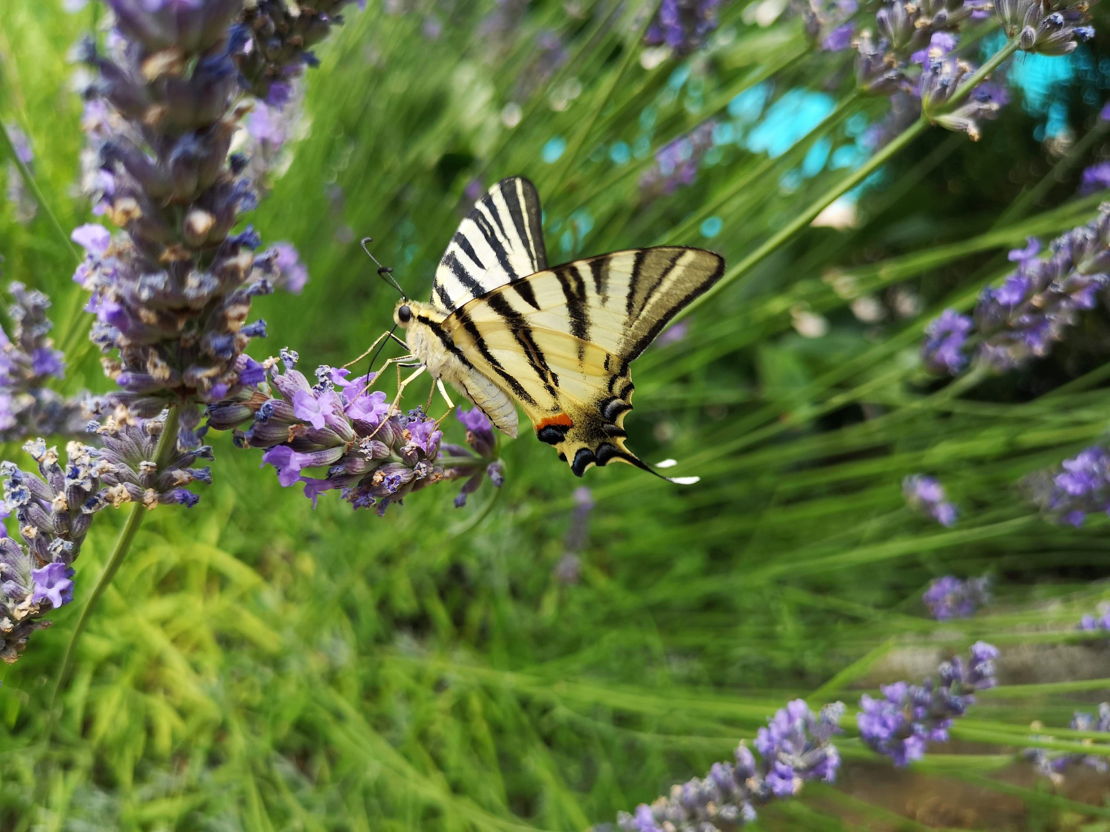 A Scarce swallowtail (Iphiclides podalirius) on lavender